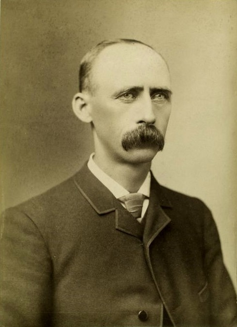 Deacon White, Detroit Wolverines, 3rd base, 1888. Albumen print, 16.5 x 10.8 cm.